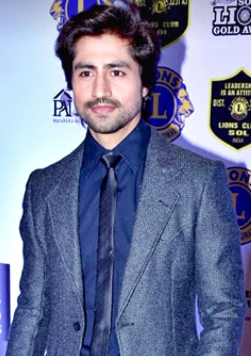 Harshad Chopda at the 25th SOL Lions Gold Awards 2018